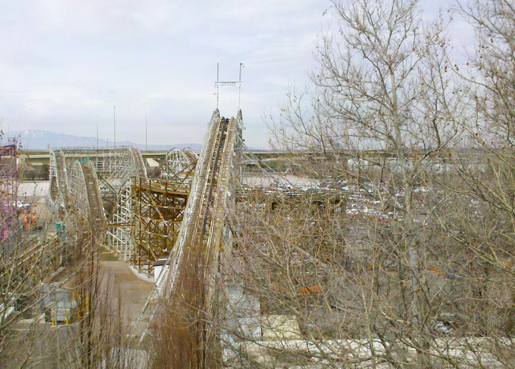 Roller Coaster (Lagoon) Taken from Lagoon's Sky Ride.